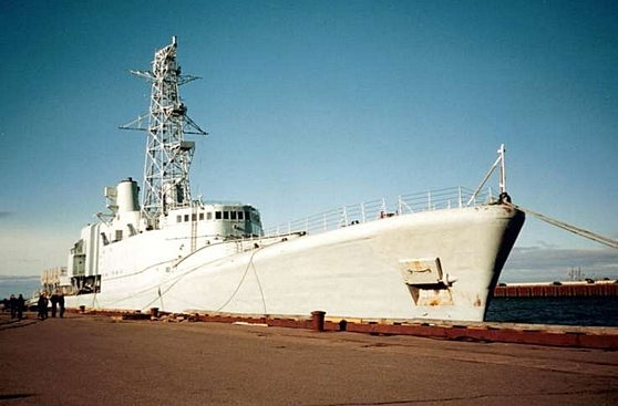 HMCS Nipigon (DDH 266) sunk for an artificial reef north of Rimouski, Quebec in 2003.